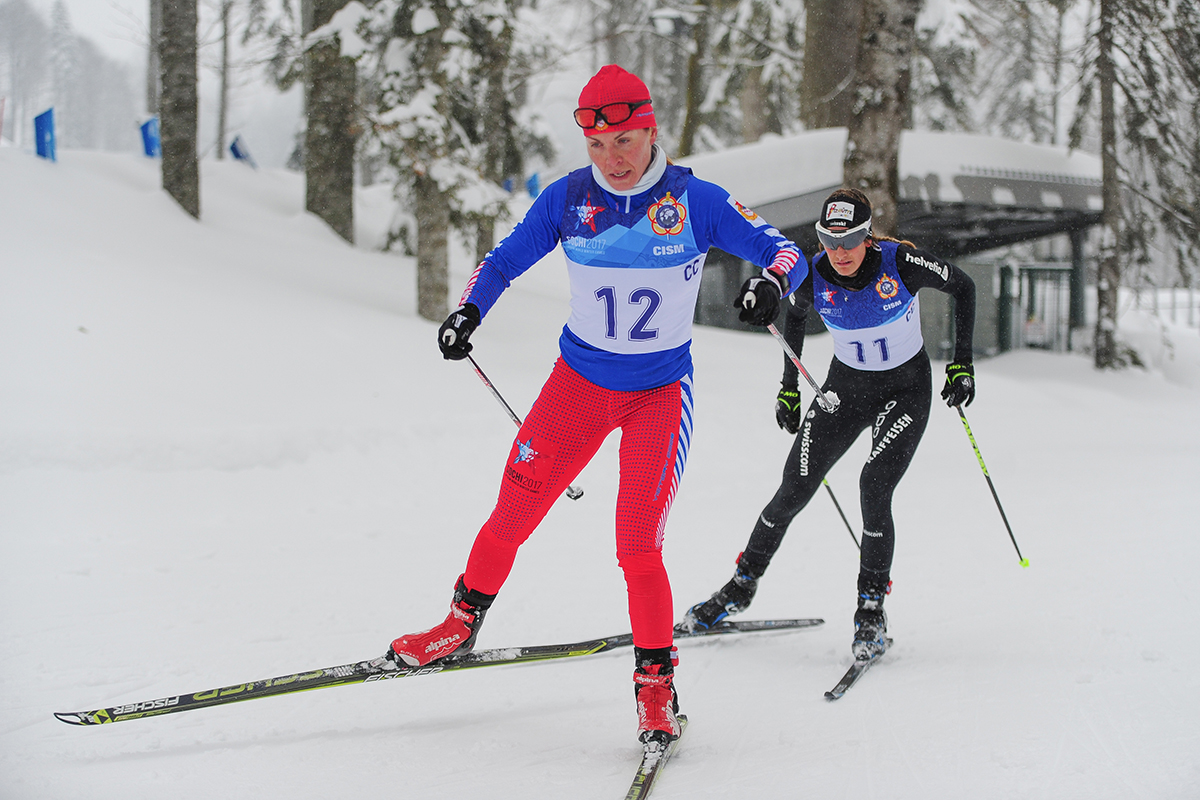 Наталья Ильина (Россия) и Алина Мейер (Швейцария) на дистанции лыжной гонки на 10 км. III Зимние Всемирные военные игры. Лыжно-биатлонный комплекс «Лаура», Сочи, Россия. 24 февраля 2017. Фото Alexander Fedorov/CISM2017Natalja ILJINA of Russia and Alina MEIER of Switzerland at Cross Country Skiing Women 10 km on the 3rd CISM World Winter Games. Laura Cross-Country Ski&Biathlon Centre, Sochi, Russian Federation. February 24, 2017. Photo by Alexander Fedorov/CISM2017